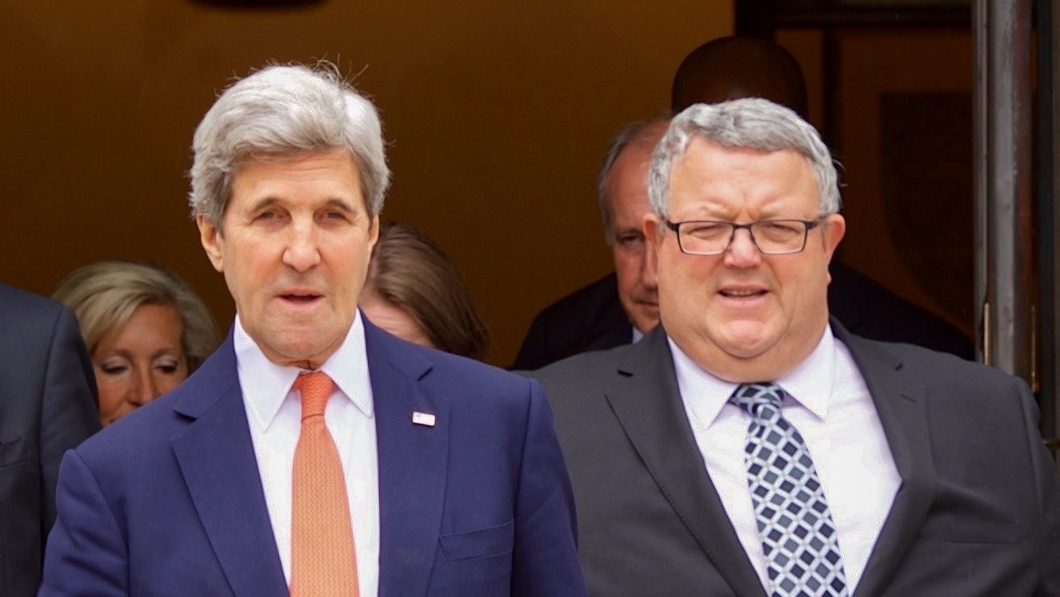 U.S. Secretary of State John Kerry and NZ Defense Secretary Gerry Brownlee depart the Hall of Memories at the Pukeahu National War Memorial Park at Anzac Square in Wellington, New Zealand, after presenting U.S. medals to members of New Zealand’s armed forces who served alongside American troops. [State Department Photo/ Public Domain]